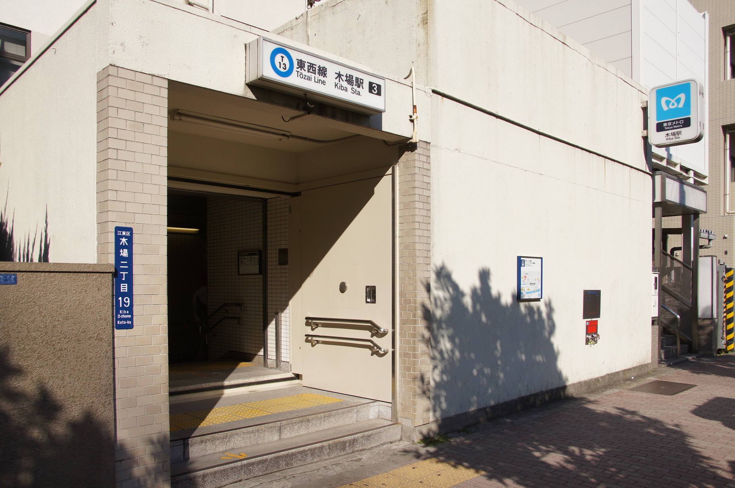 Exit 3 of Kiba Station on the Tokyo Metro Tozai Line in Koto, Tokyo